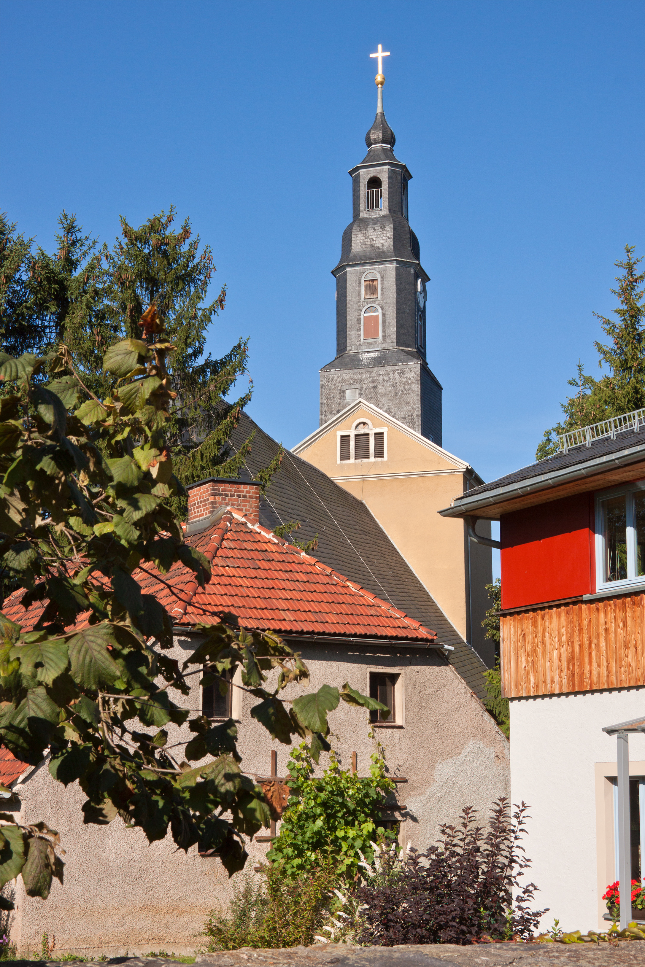 Brand-Erbisdorf, Saxony, church